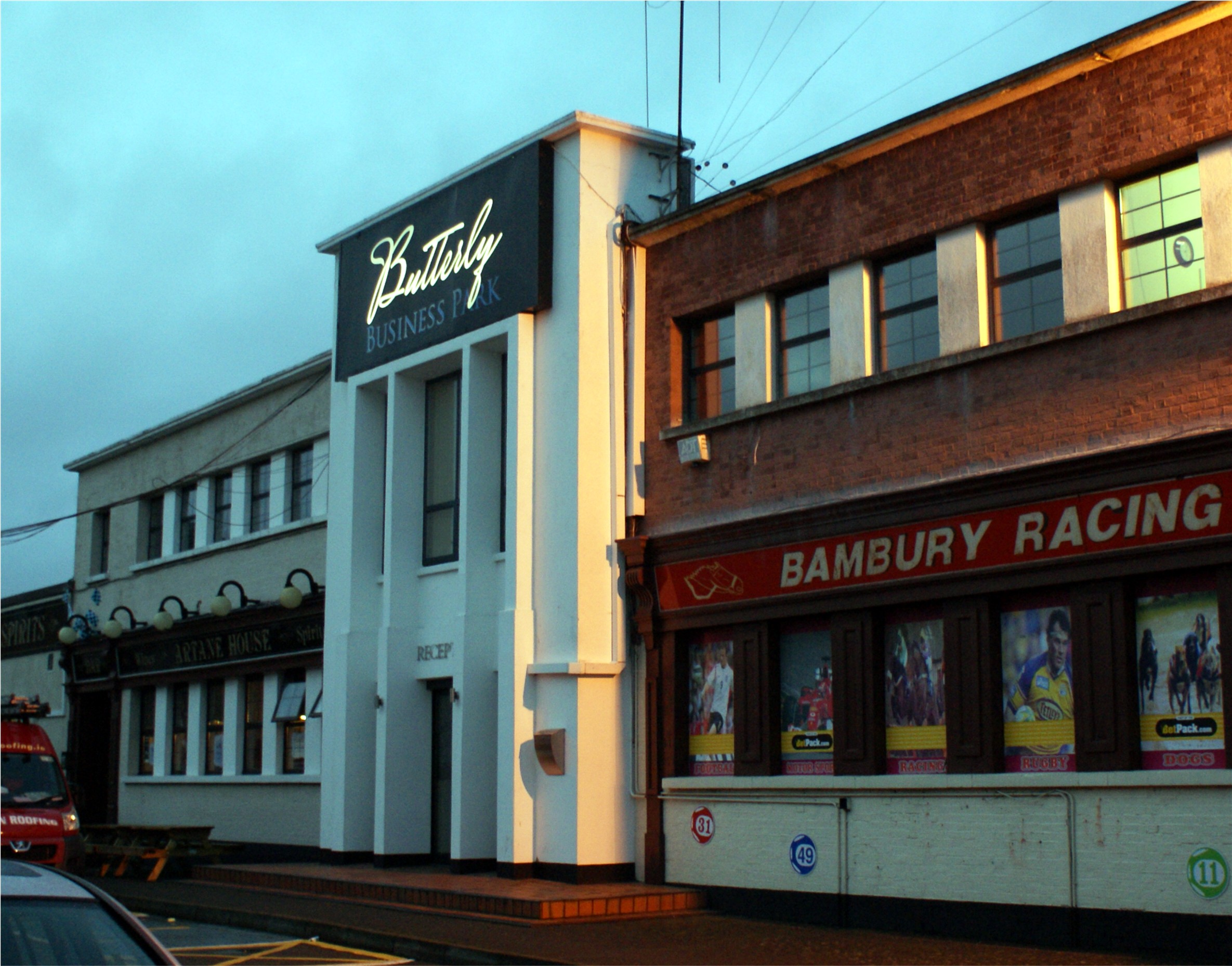 The main entrance to the building that was once the Stardust nightclub, Artane, Dublin.